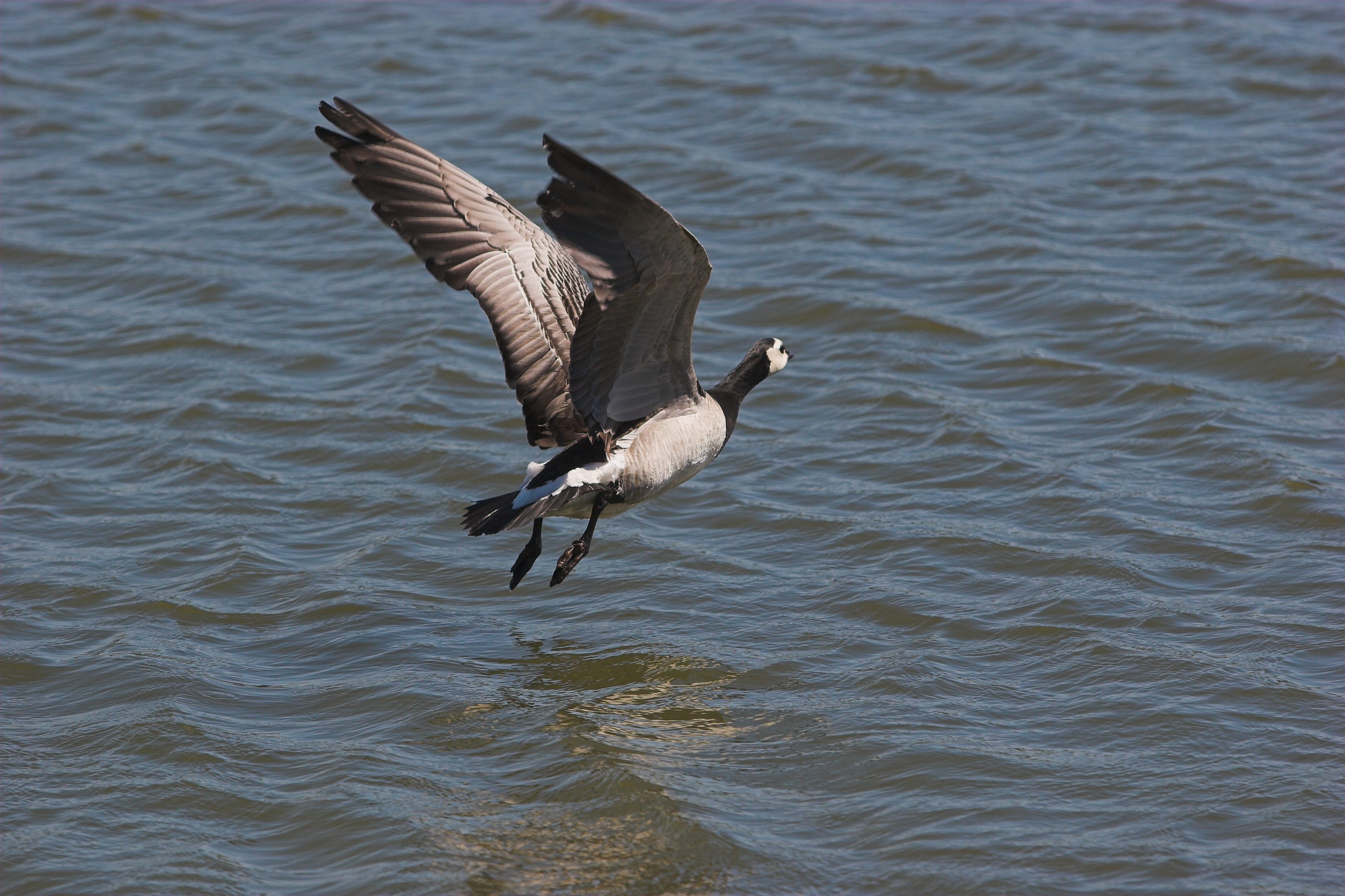 Branta Leucopsis in flight. Photo by Thermos. Many thanks for user MPF for identifying bird.